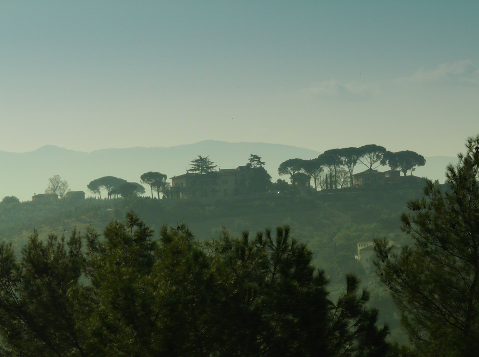 Villa Rusciano by Daniela Caneschi